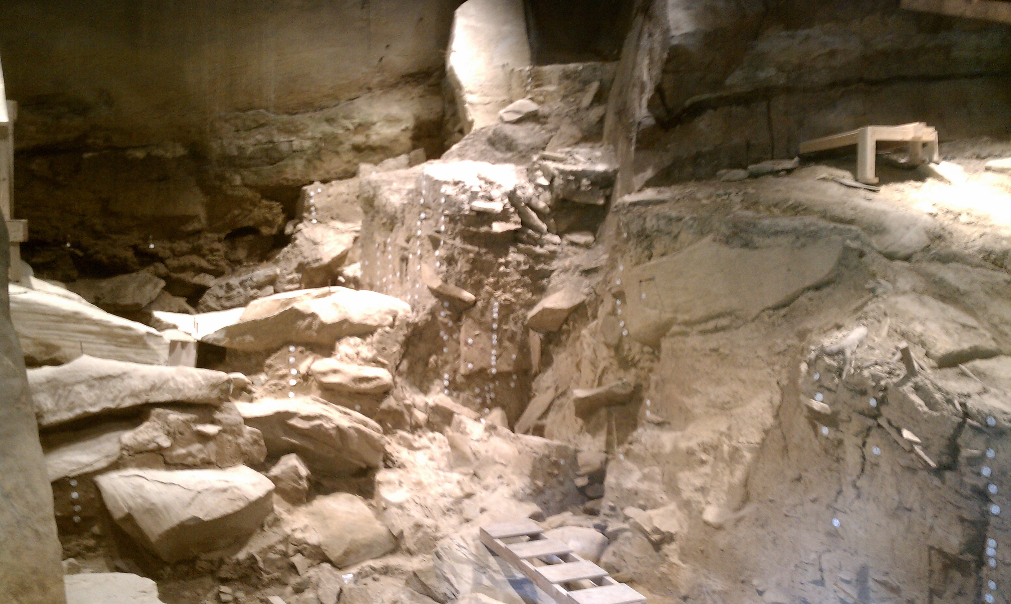 A sign near the site says the following: "Meadowcroft Rockshelter - a deeply stratified archaeological site its deposits span nearly 16,000 years. Discovered in 1973 by Albert Miller and excavated by the University of Pittsburgh archaeologists, Meadowcroft revealed North America's earliest known evidence of human presence and the New World's longest sequence of human occupation. All of eastern North America's major cultural stages appear in its remarkably complete archaeological record. Pennsylvania Historical and Museum Commission 1999". [1]